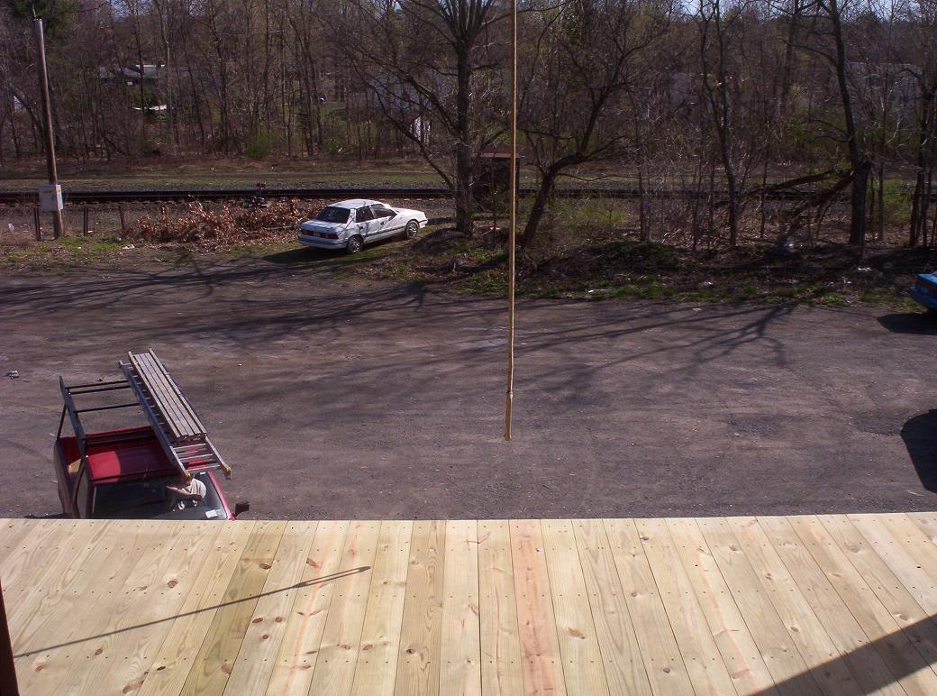 View of tracks from deck